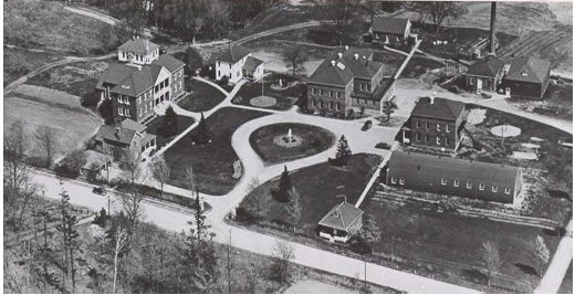 Oneida Indian Boarding School, Oneida, Wisconsin, c.1919. Other information No.